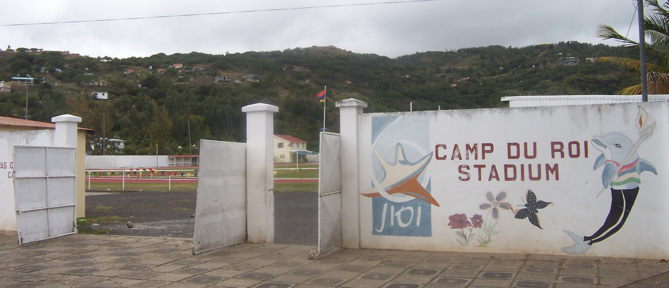 The Port-Mathurin's stadium, Rodrigues